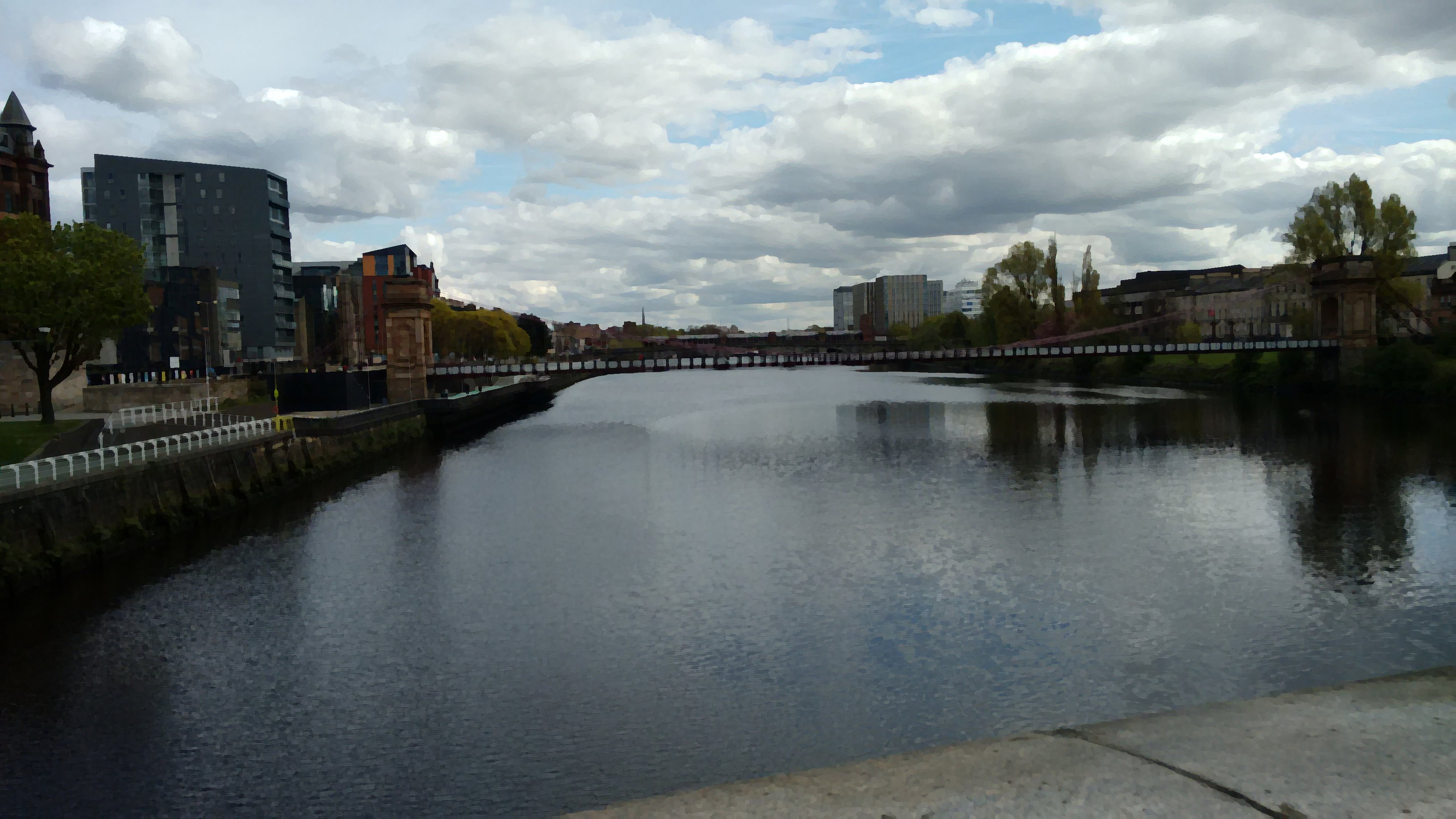 Imagem com filtro de Kuwahara aplicado com fator de 9